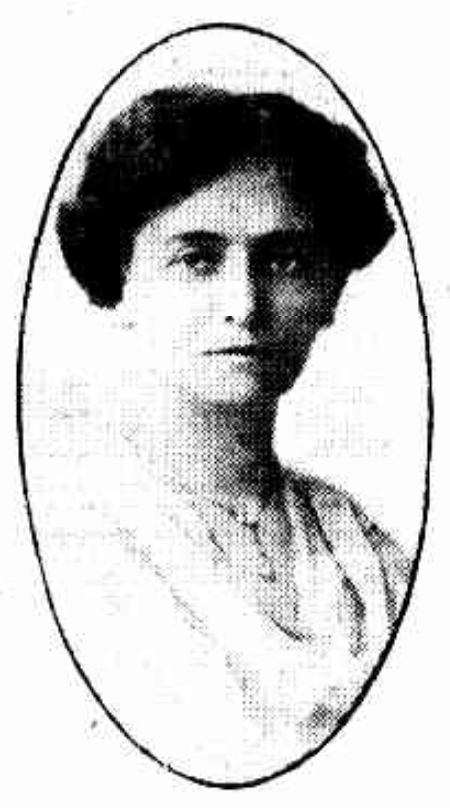 Mary Grant Bruce, Australian children's author and journalist, 1914